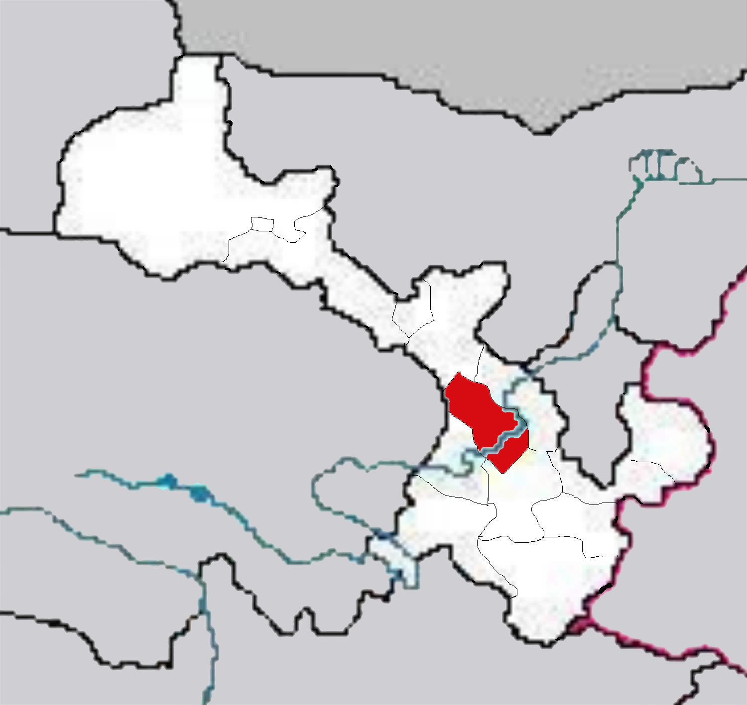 Maps of Gansu Province of China.